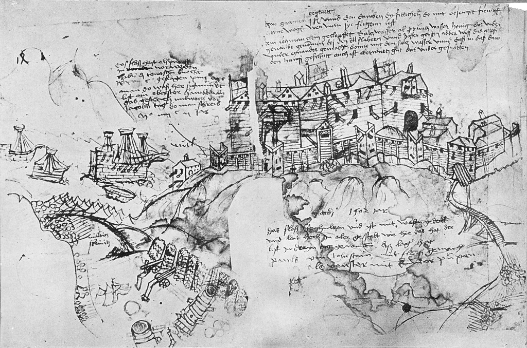 The Danish siege of Old Älvsborg Fortress in 1502, in a war between King Hans' Danish army and Sten Sture the Elder's Swedish army. Drawing from c. 1502 by the German soldier of fortune (Landsknecht) Paul Dolnstein, who himself participated in the Danish army. Den danska belägringen av Gamla Älvsborgs slott 1502, i ett krig mellan kung Hans danska här och riksföreståndaren Sten Sture den äldres svenska här. Teckning från cirka 1502 av den tyske landsknekten Paul Dolnstein, som själv deltog i den danska hären. Collection: Photo collections, Archives of Swedish National Heritage Board. The original drawing is probably kept in the State Archives of Weimar in Germany. Parish (socken): Göteborg Province (landskap): Västergötland Municipality (kommun): Göteborg County (län): Västra Götaland Photograph by: Unknown Date: c. 1930 Format: Glass plate negative Persistent URL: Read more about the photo database (in english)